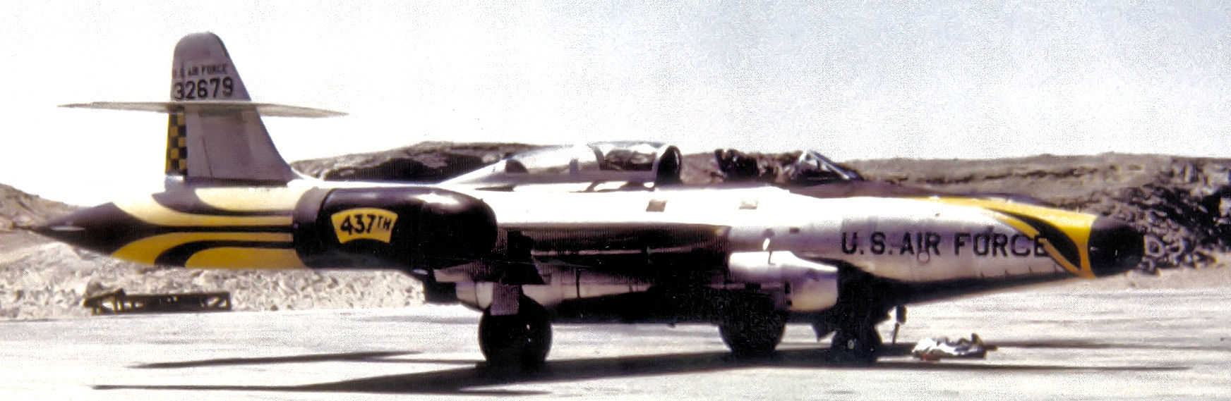 437th Fighter-Interceptor Squadron Northrop F-89D-70-NO Scorpion 53-2679 1956 Stationed at Oxnard AFB, California. At Nellis AFB, California